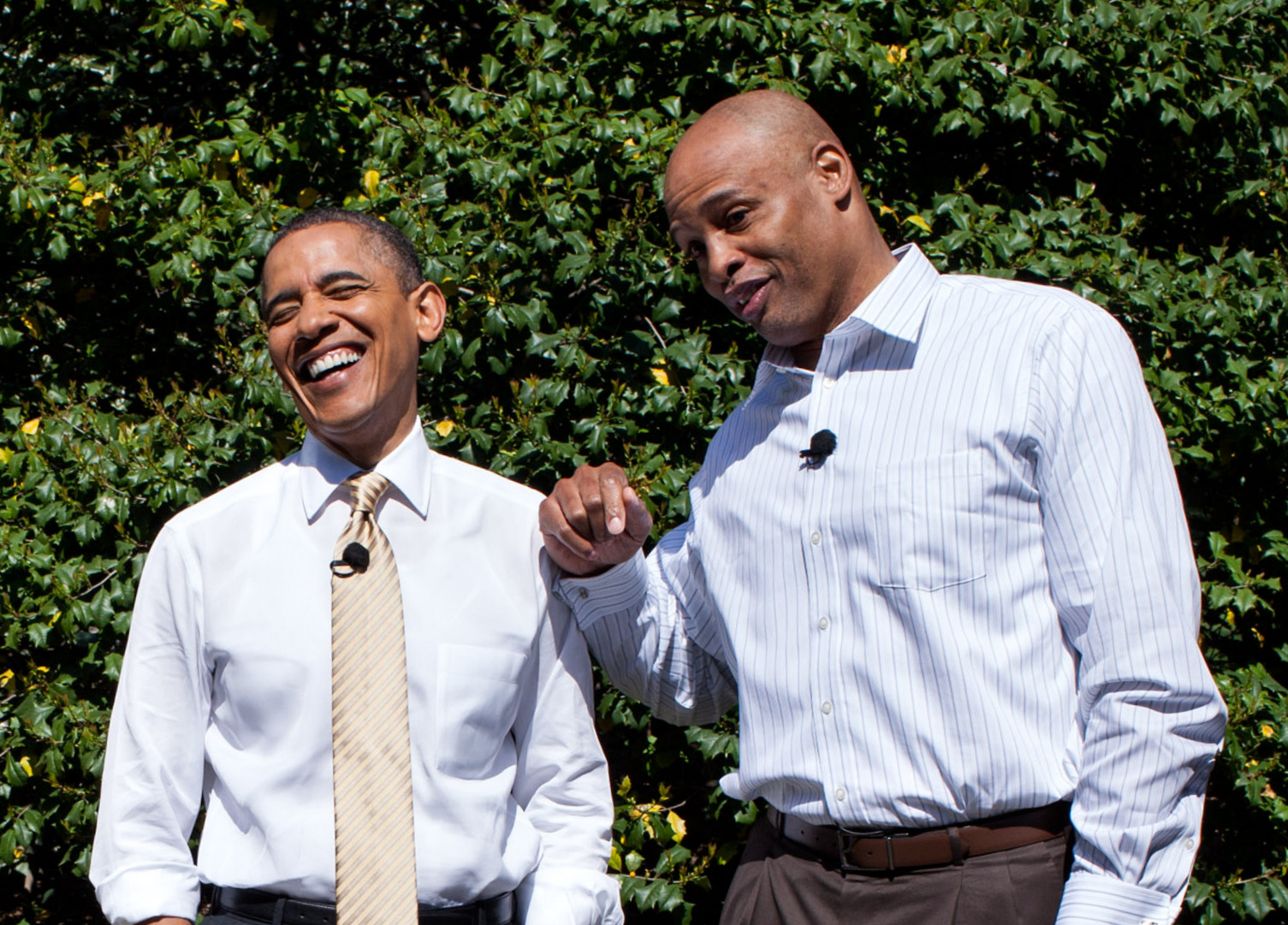 President Barack Obama laughs with Clark Kellogg as they walk through Children's Garden to the White House basketball before an interview for the CBS "Final Four Show", March 29, 2012. (Official White House Photo by Pete Souza)